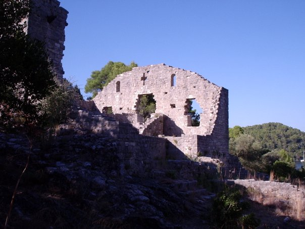 Ruins of christian basilica in Polače, Mljet, Croatia